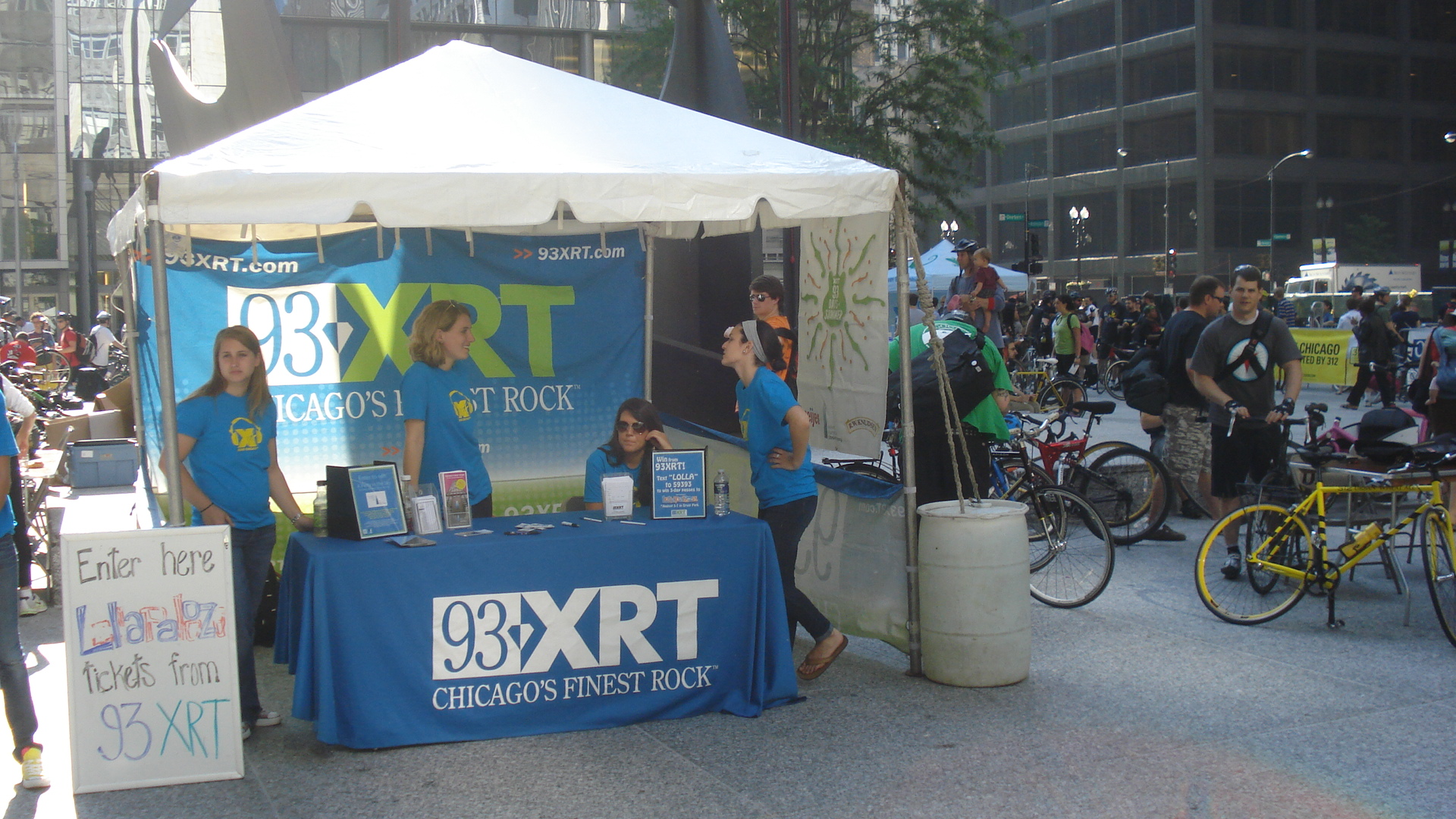 Chicago Bike to Work Day Rally 2011